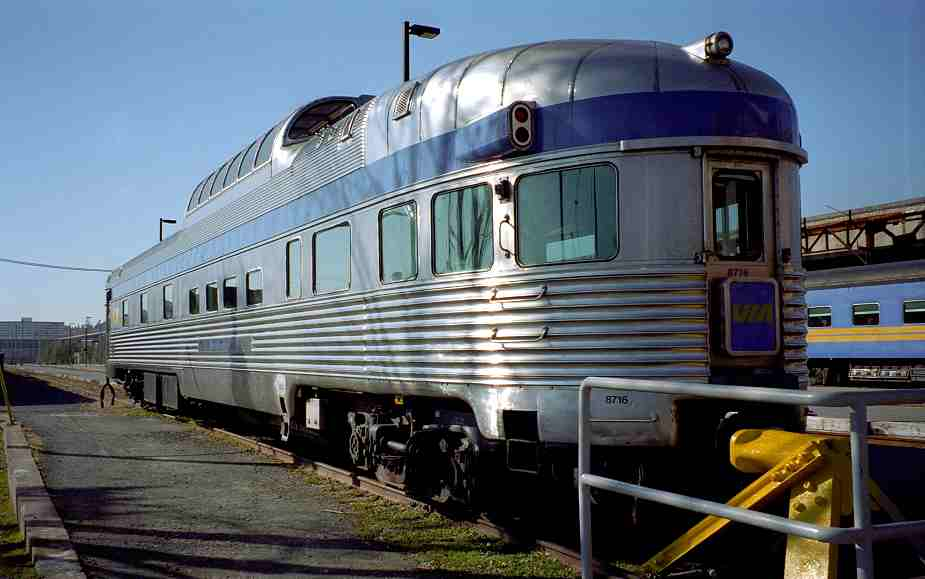 Stainless steel "Dome" observation car at the rear of the Silver & Blue Class trains (Halifax NS, Canada)